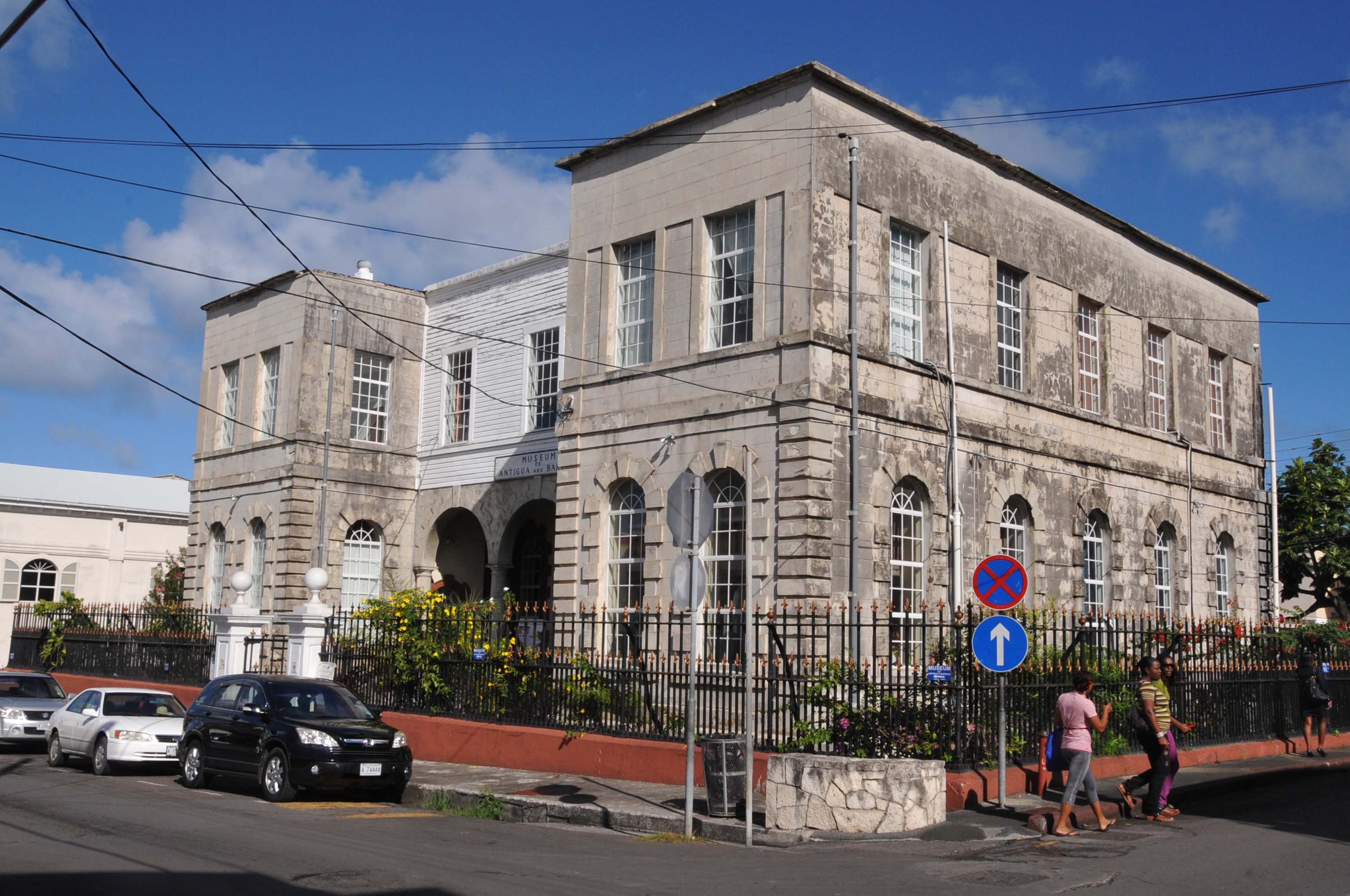 1750 COURTHOUSE IS THE OLDEST BUILDING IN ST. JOHN’S STILL IN USE; NOW SERVES AS ANTIGUA MUSEUM